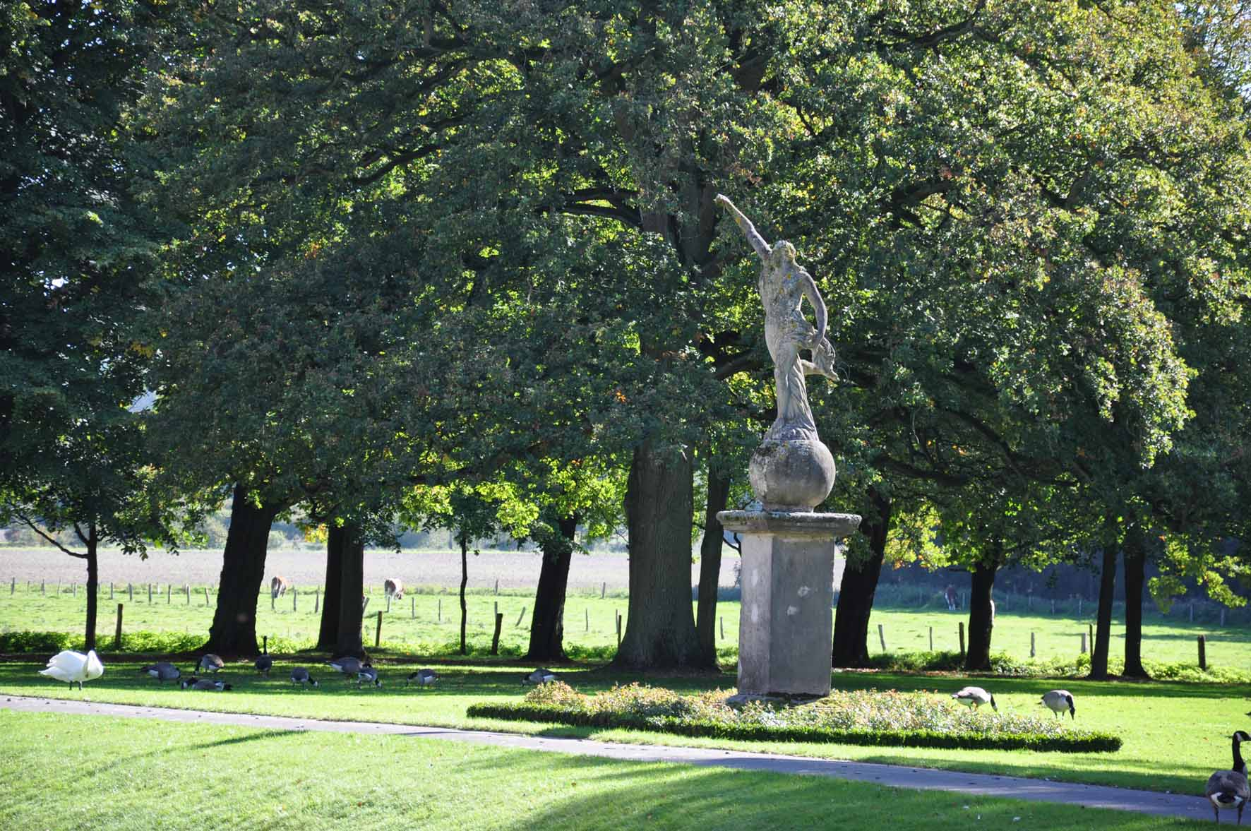 Baroque sculpture in the park of Darfeld water castle; no trespassing, privat area; what a pity